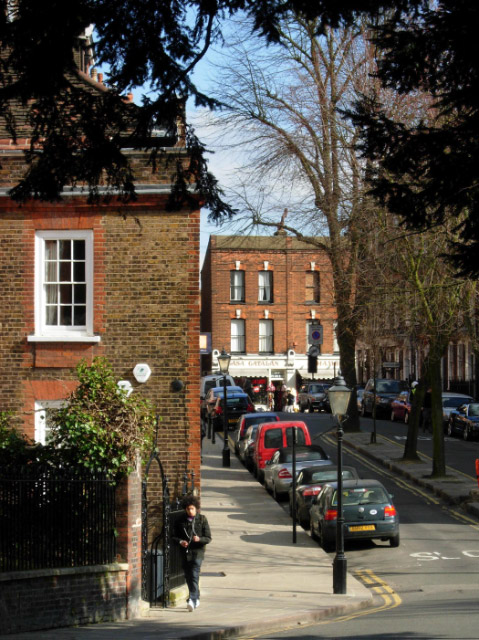 Church Row, Hampstead Described as one of London's most complete Georgian streets, this view looks towards Heath Street from close to St John's Church.